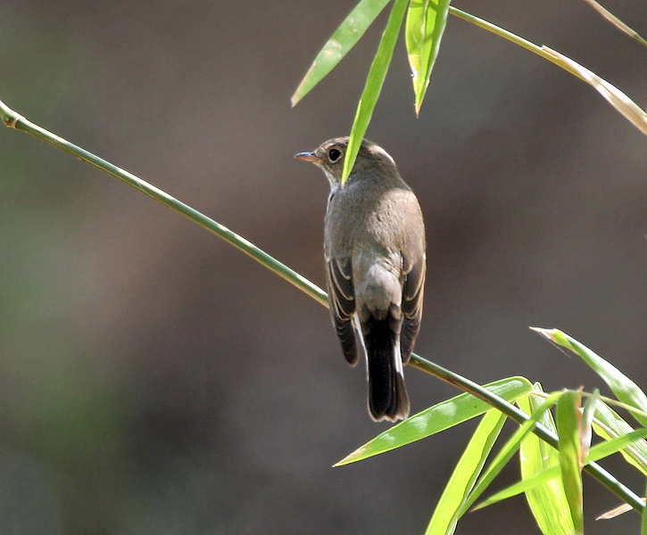 Red-throated Flycatcher (Ficedula albicilla) at Sindhrot in Vadodara District of Gujarat, India.